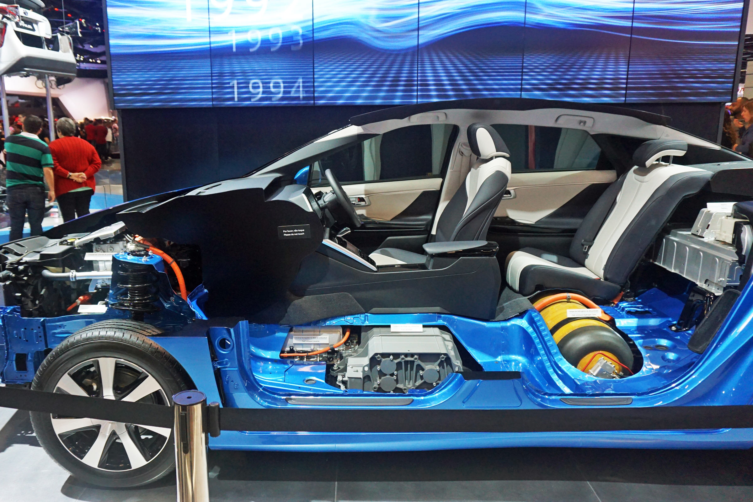 Toyota Mirai Fuel Cell cutaway exhibited at the Salão Internacional do Automóvel 2016 São Paulo, Brazil. Shown fuel cell stack (left) and high-pressure hydrogen tank (right).